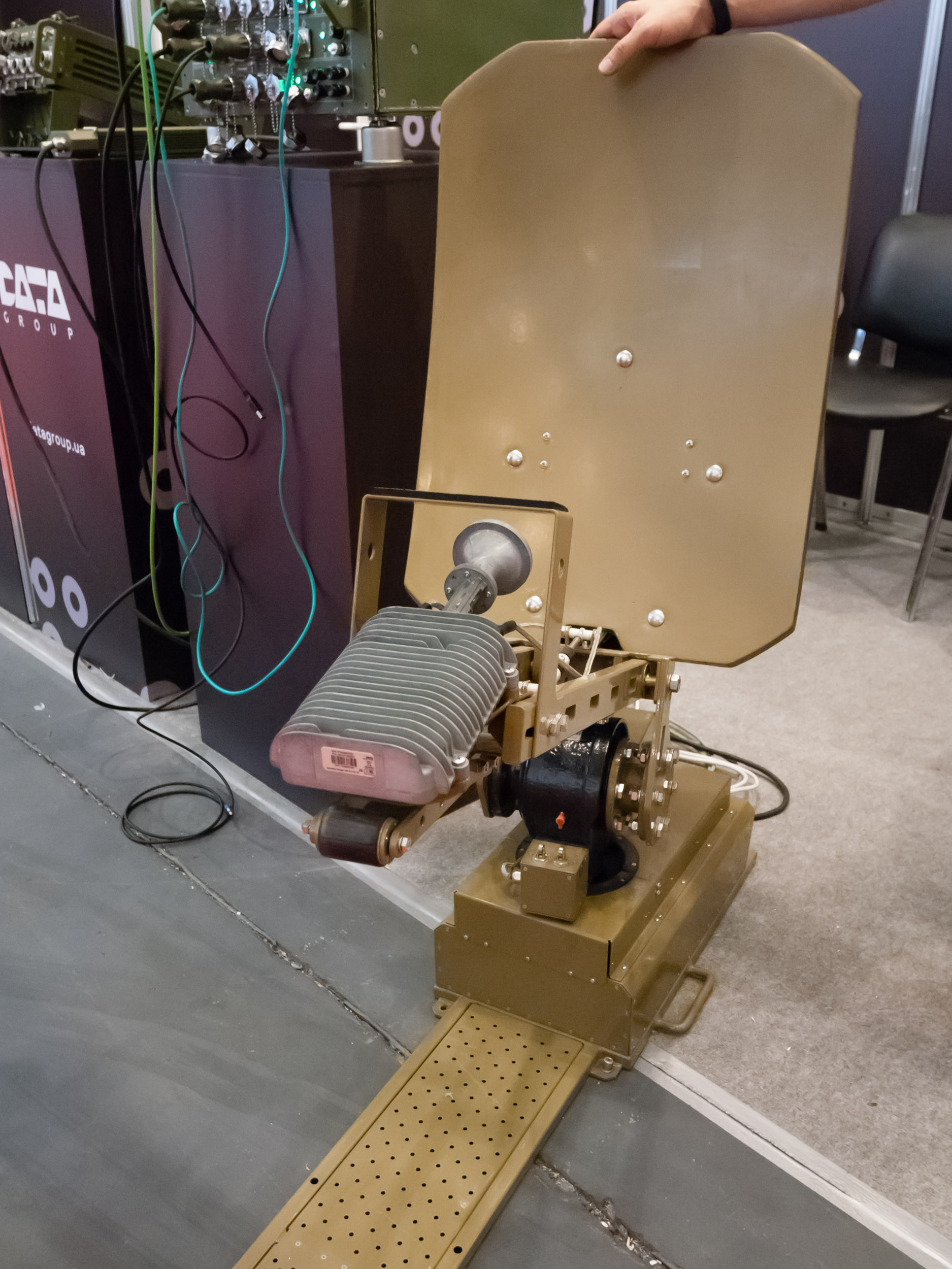 MKSZ (mobile set for satellite radio system) by Datagroup company, 'Zbroya ta Bezpeka' military fair, Kyiv, Ukraine, 2018